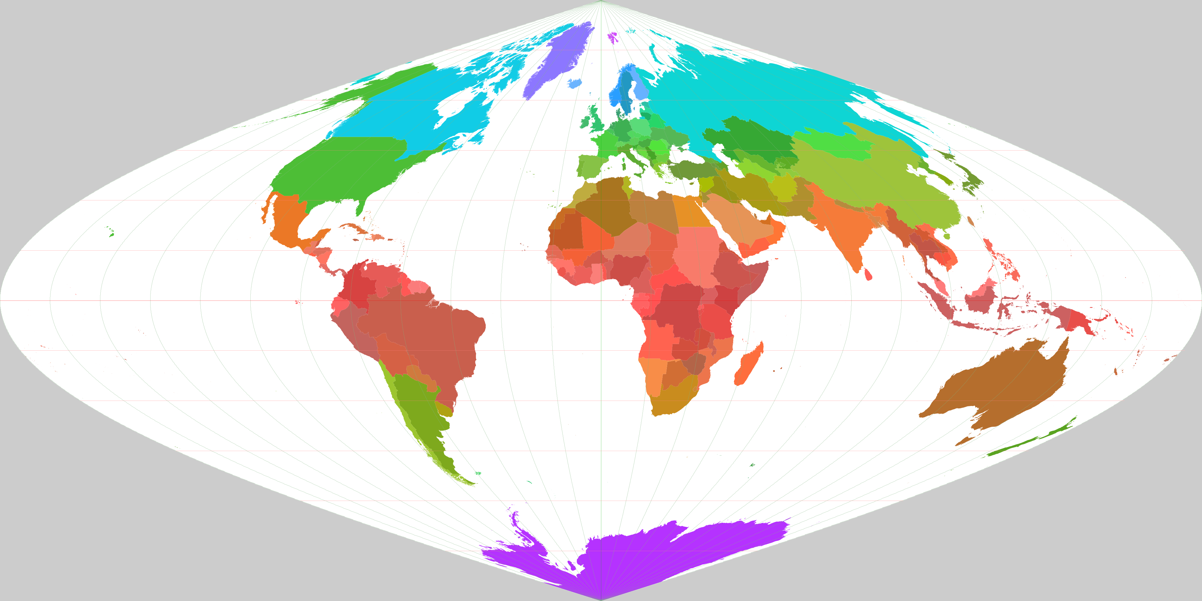 Political map of the World on the basis of a sinusoidal projection with colours that vary by latitude.